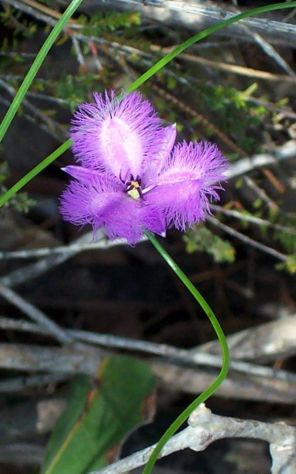 Thysanotus juncifolius or Thysanotus tuberosus at Ku-ring-gai Chase National Park